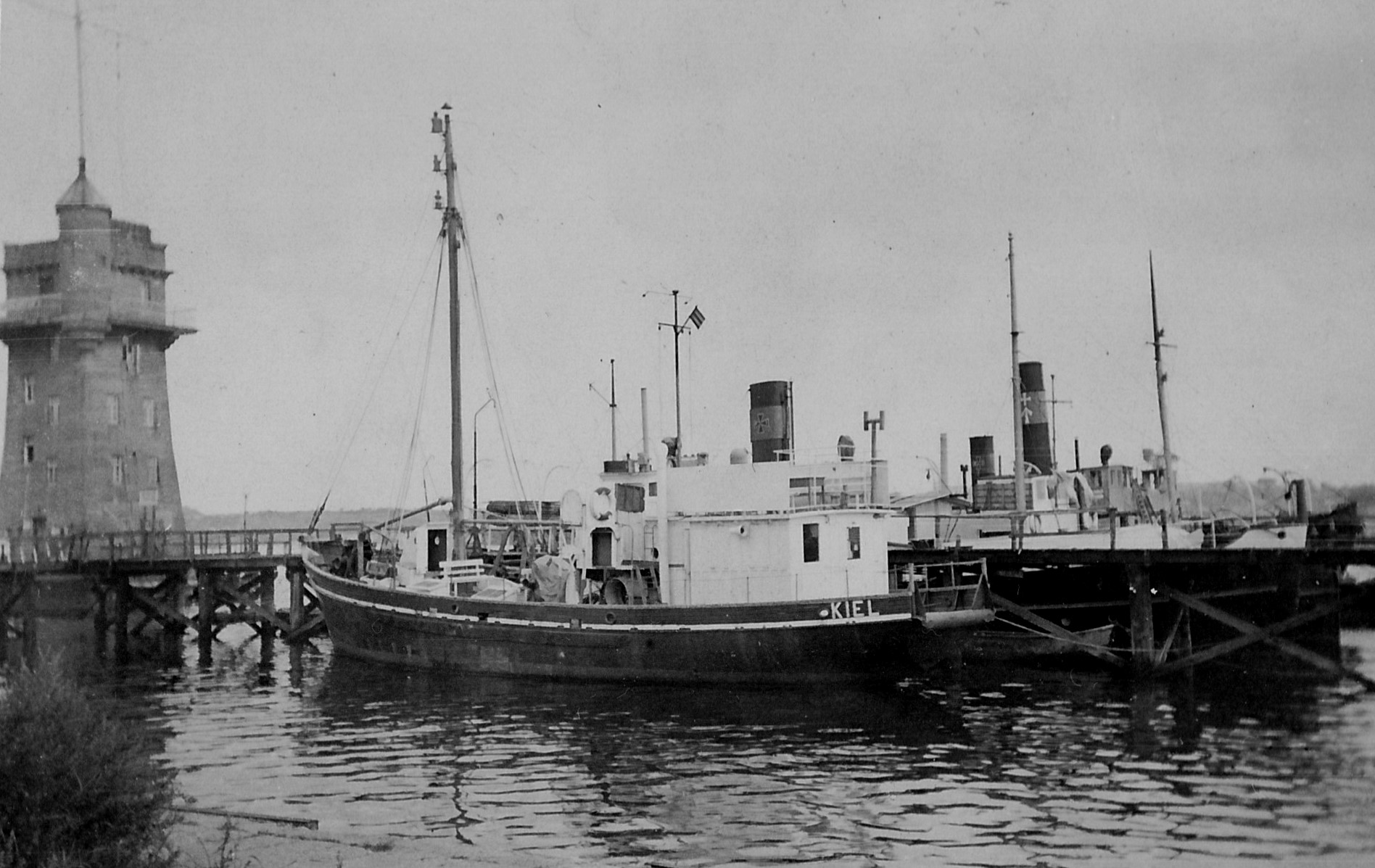 Research vessel "Südfall" at Kiel harbour